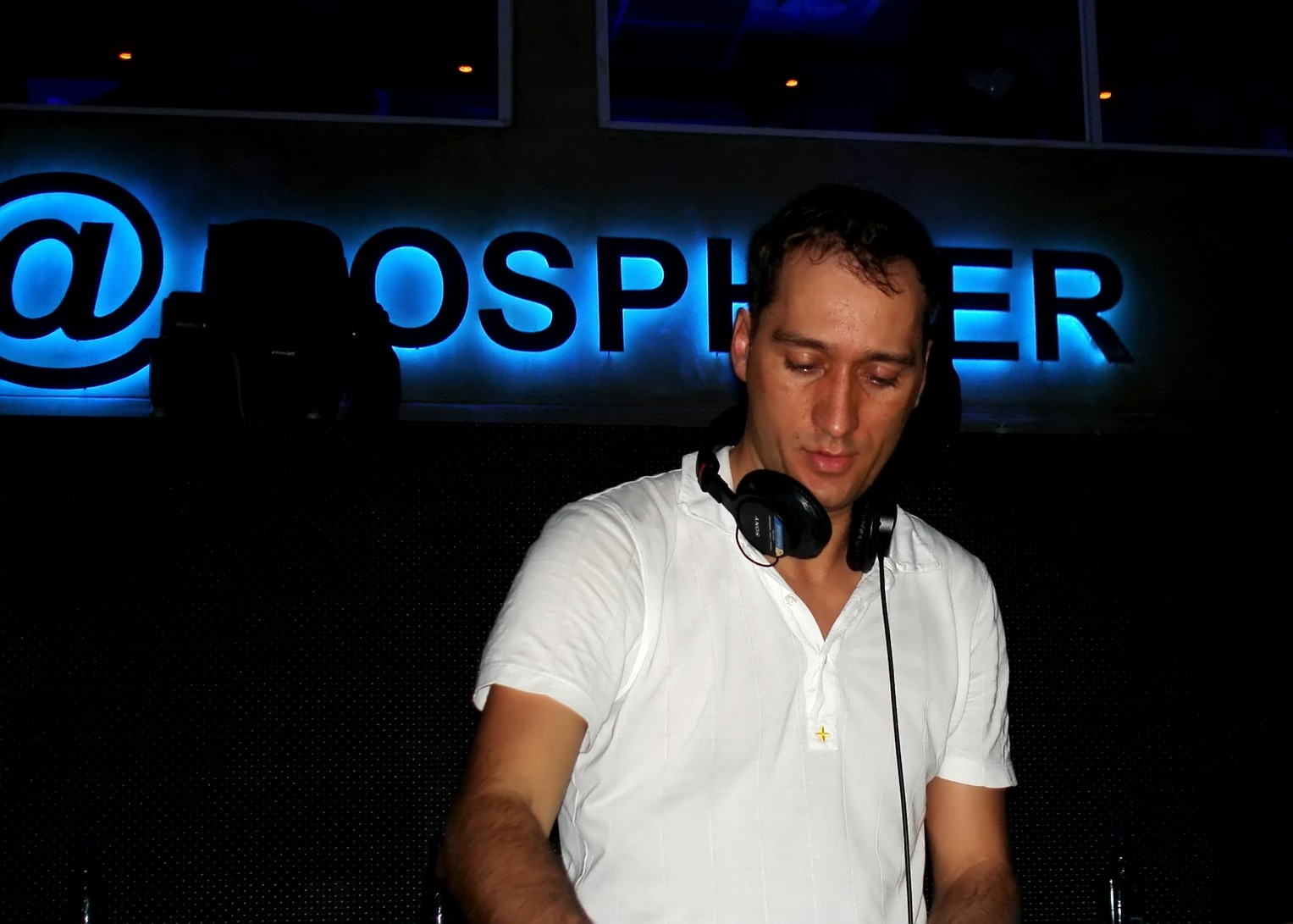 Paul van Dyk doing a 3 hour set at club @mospheer in Cape Town, South Africa.